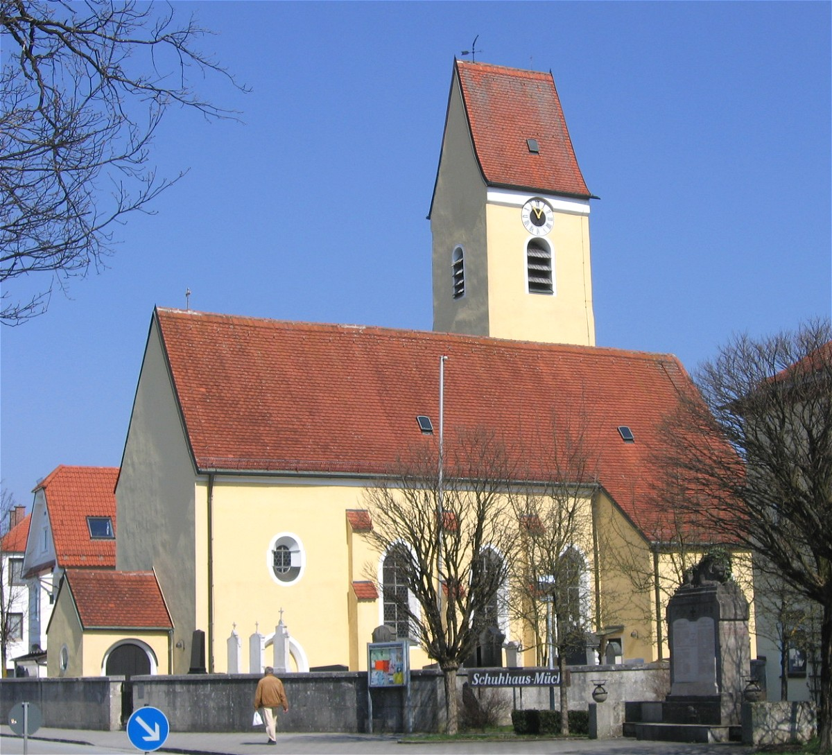 Höhenkirchen, Parish Church of the Nativity of the Virgin Mary from south-west.